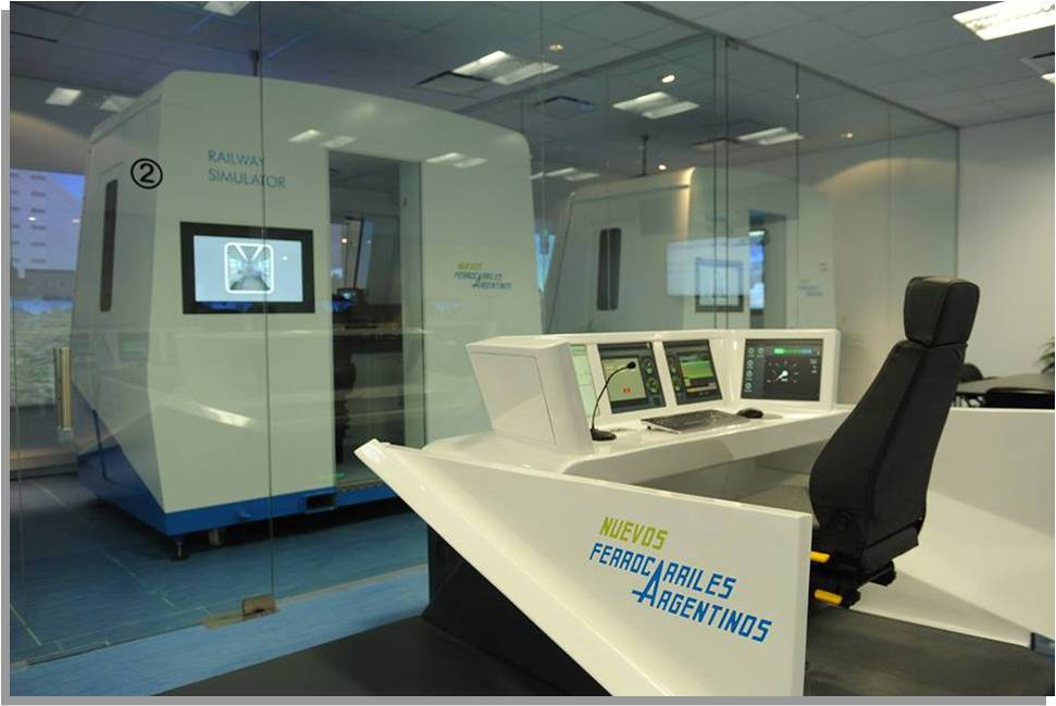 Train simulators at Centro Nacional de Capacitación Ferroviaria (CENACAF) with Ferrocarriles Argentinos logo.